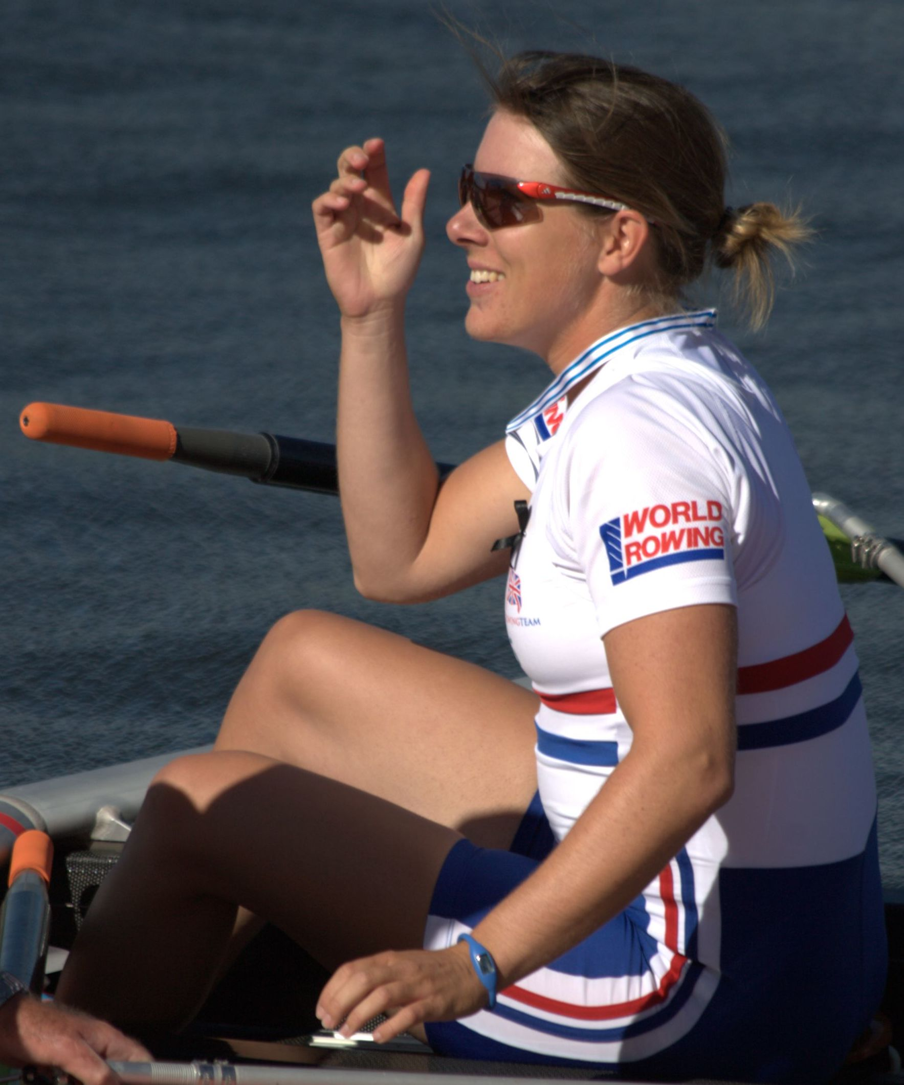 GB W4x - Beth Rodford. 2010 World Rowing Championships.